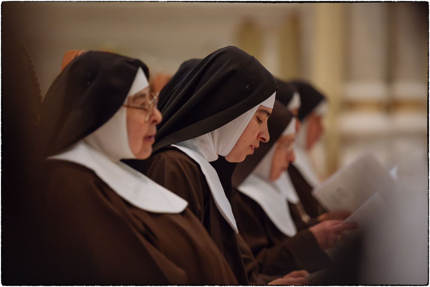 Brown habit black veil white wimpole for Capuchin Poor Clares